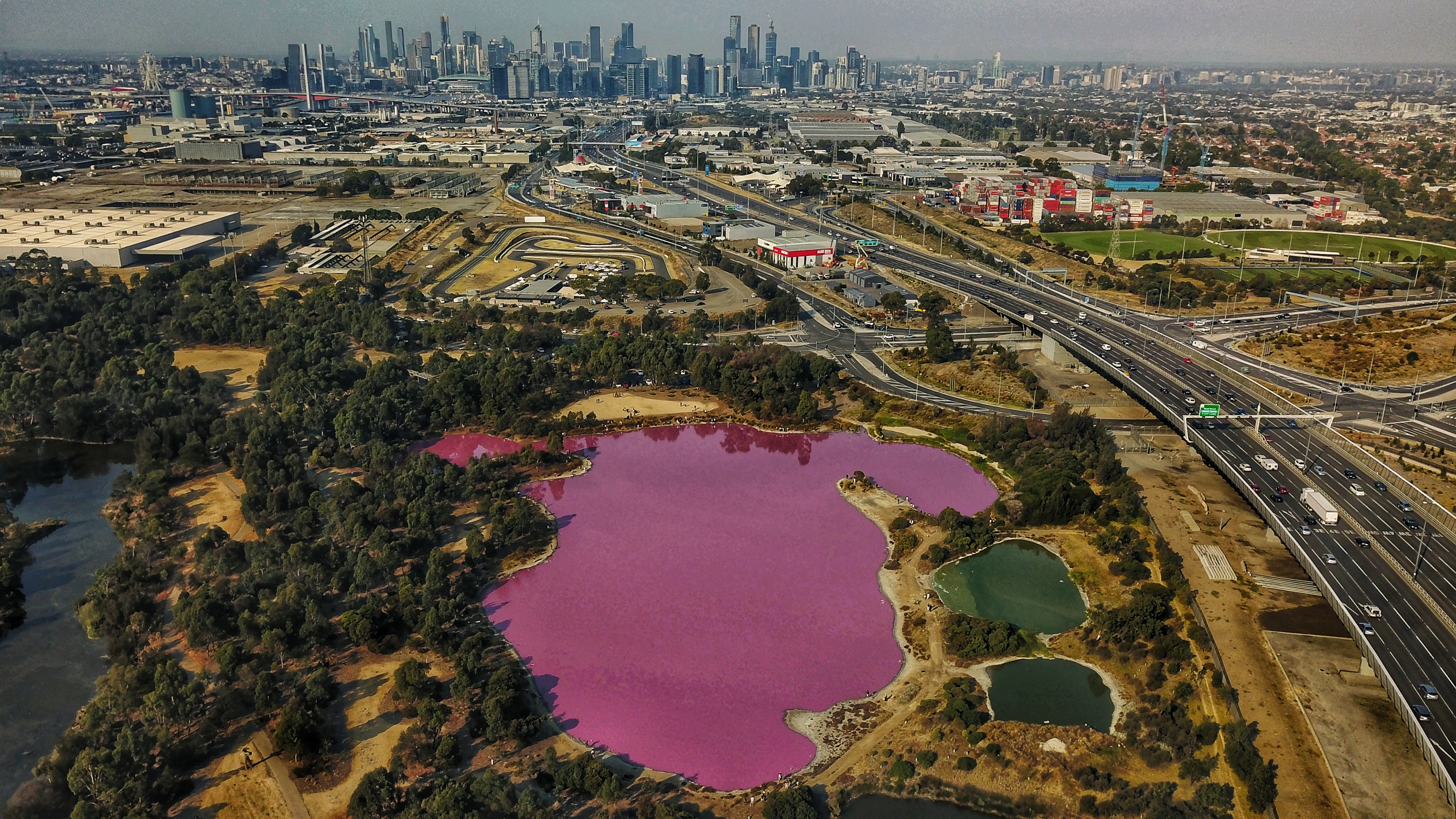 Westgate Park saltwater lake turns pink in summer. March 2019.